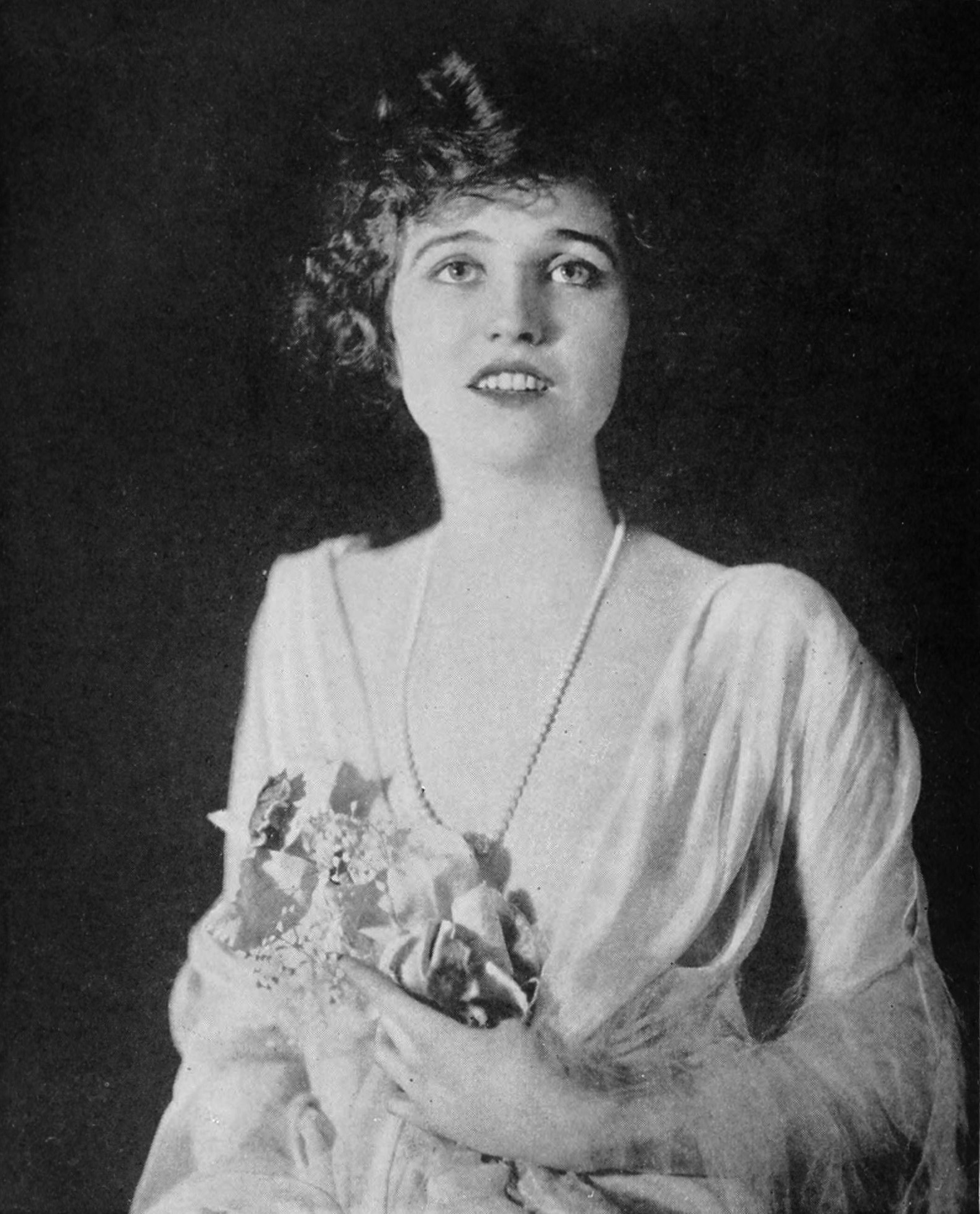 Actress Agnes Ayres from Who's Who on the Screen